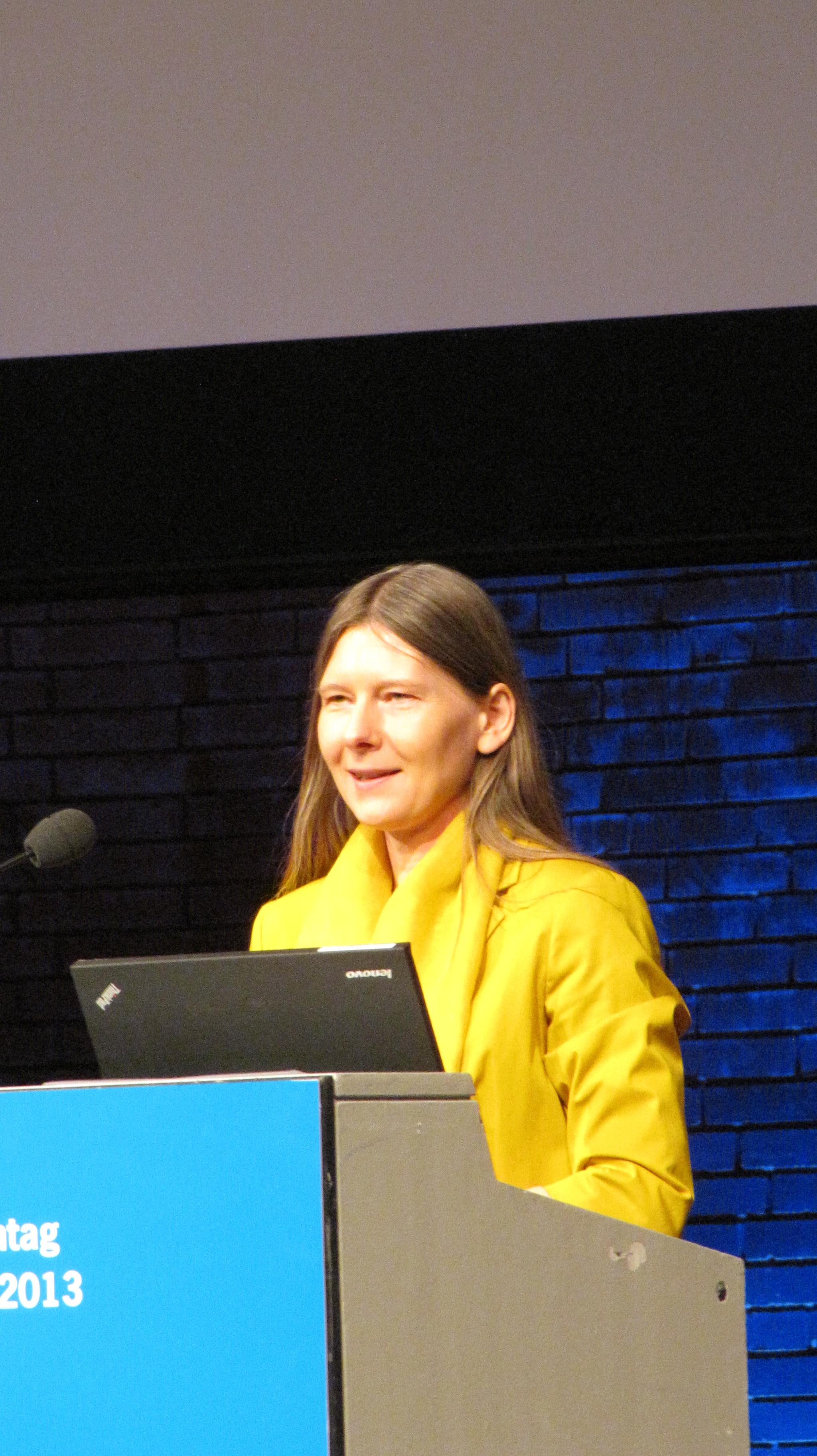 Kirchentag Hamburg 2013: Ulinka Rublack